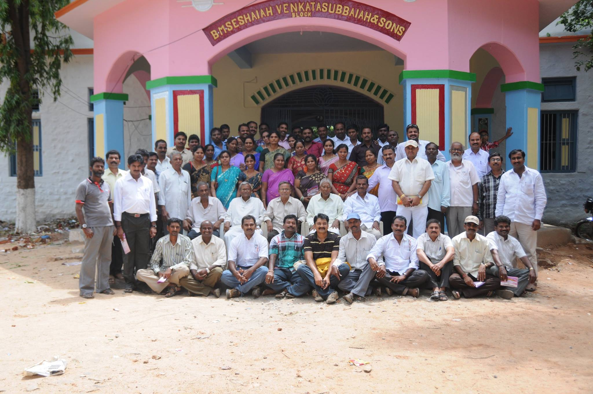 SBVDSH School, Pullampet